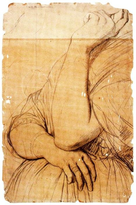 Study louise de broglie